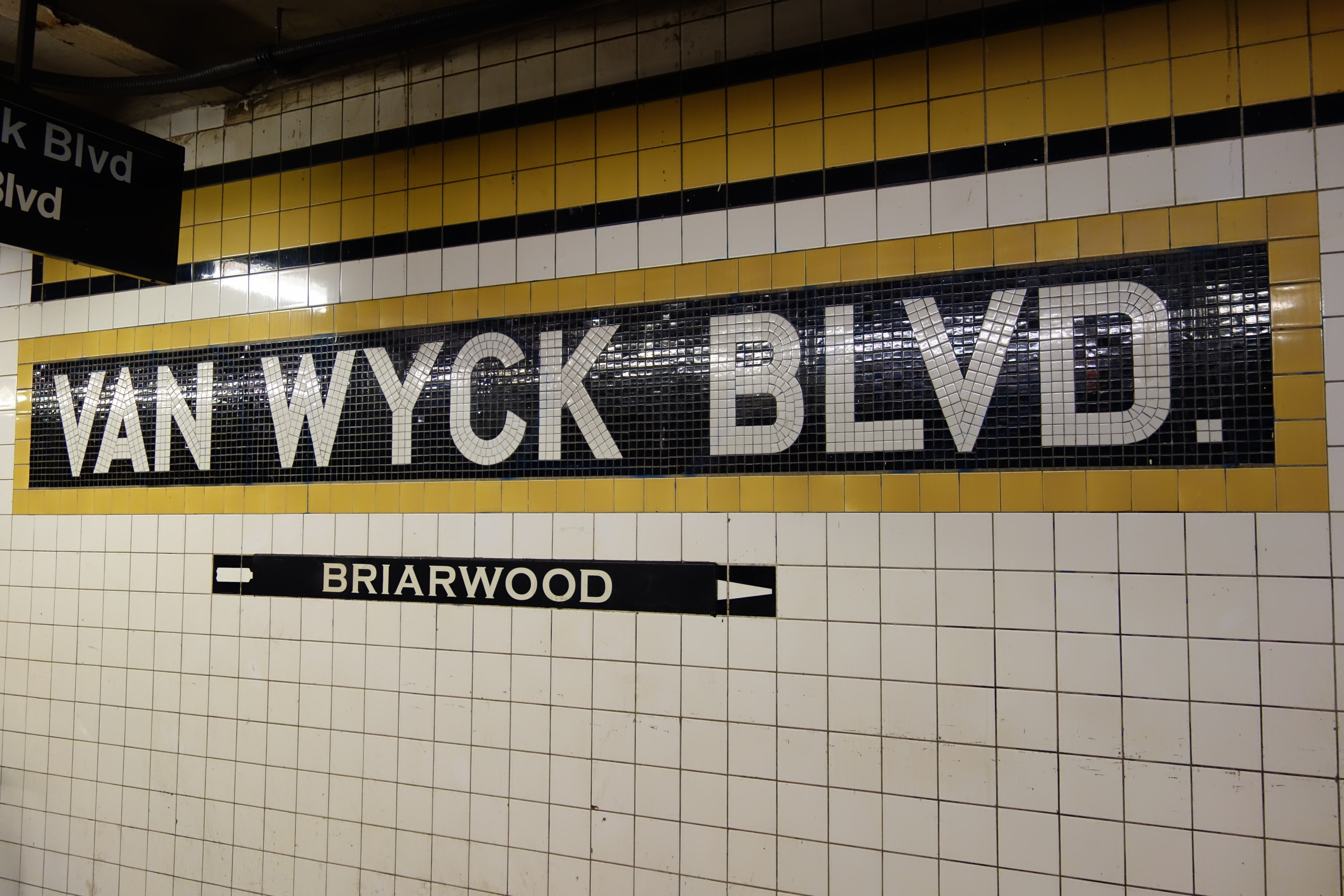 An original IND mosaic near fare control at the center of the Jamaica-bound (eastbound) platform of the Briarwood (Briarwood–Van Wyck) subway station in Briarwood, Queens. The station was originally named Van Wyck Boulevard prior to the construction of the Van Wyck Expressway. Note that the lower nameplate, which probably read "QUEENS BLVD" has been covered up by a modern sign reading "BRIARWOOD". This bothers me.